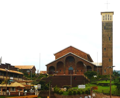 Kumbo cathedral and its suroundings